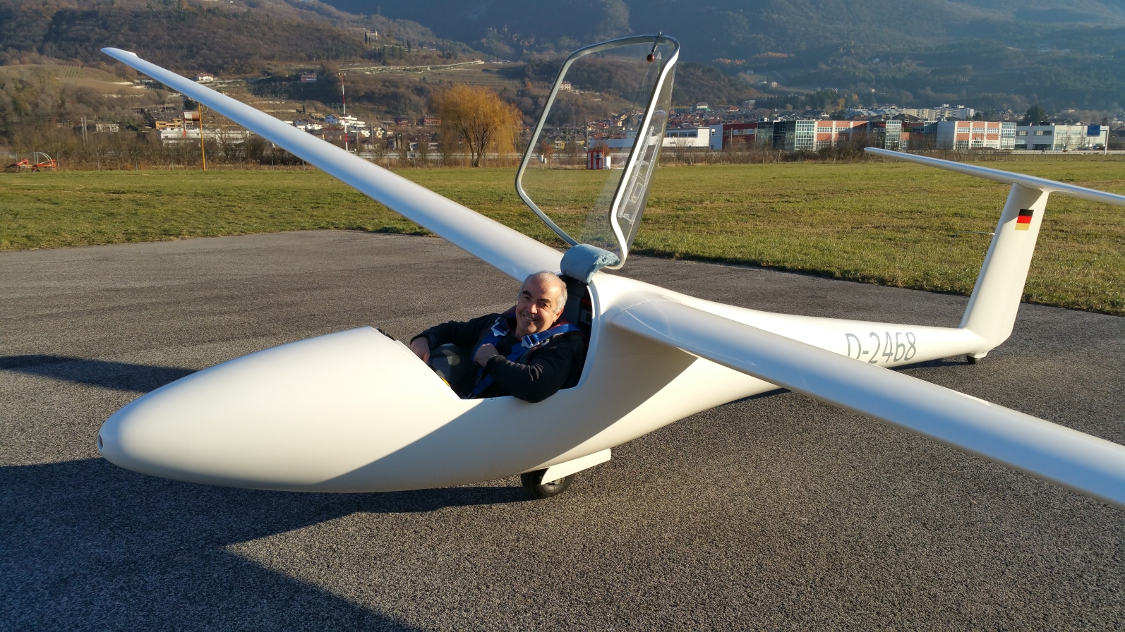 Club Libelle D-2468 (Werknummer 114) at its present home base in Trento, Italy. Notice the retractable undercarriage, not original by Glasflügel, but a later modification.